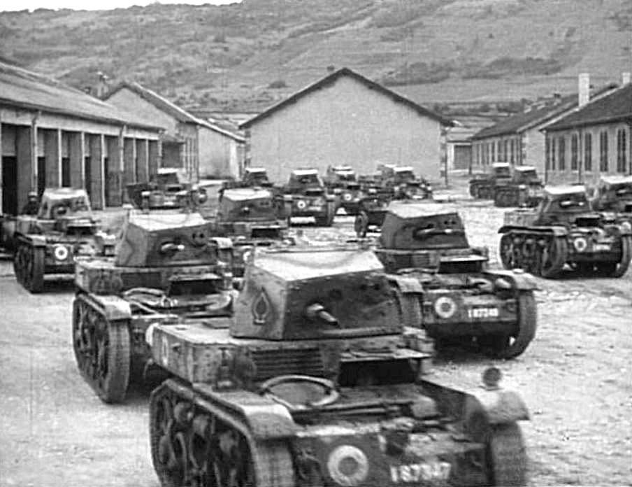 AMR 35 light tanks. Screenhot taken from the 1943 United States Army propaganda film Divide and Conquer (Why We Fight #3) directed by Frank Capra and partially based on, news archives, animations, restaged scenes and captured propaganda material from both sides.